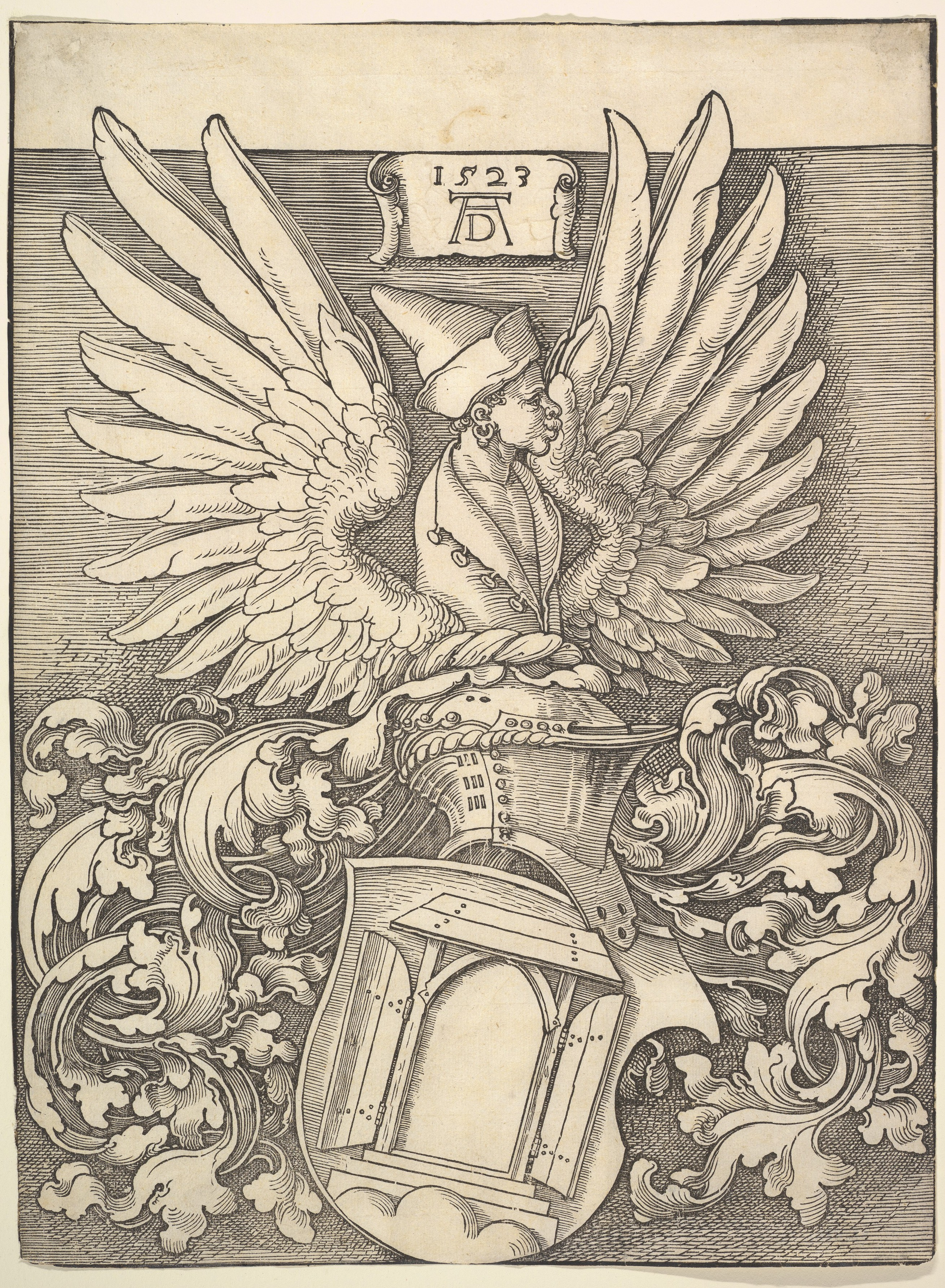 Prints